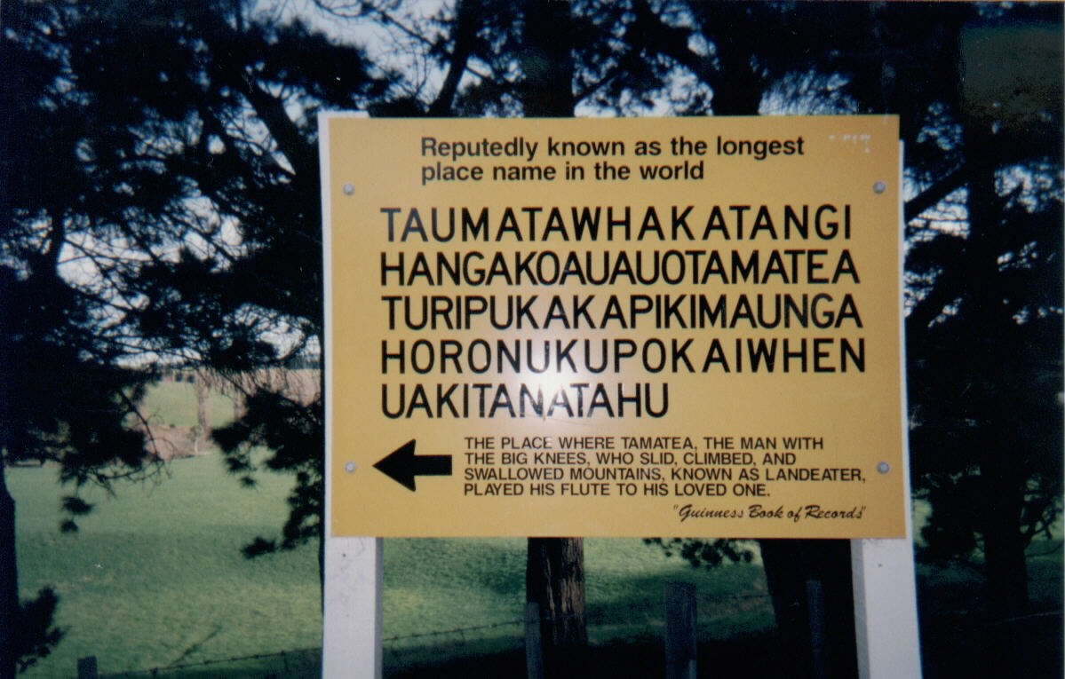 A more modern sign of NZ's longest place name. Picture taken in the evening.